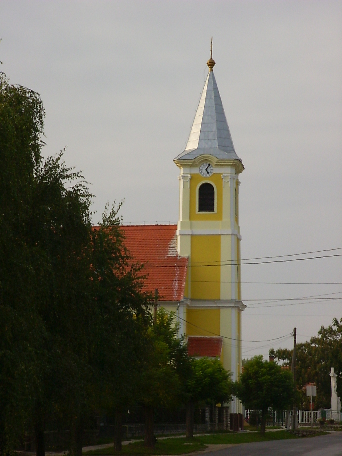 Roman catholic church in Kisfalud This is a photo of a monument in Hungary, Identifier: 4489